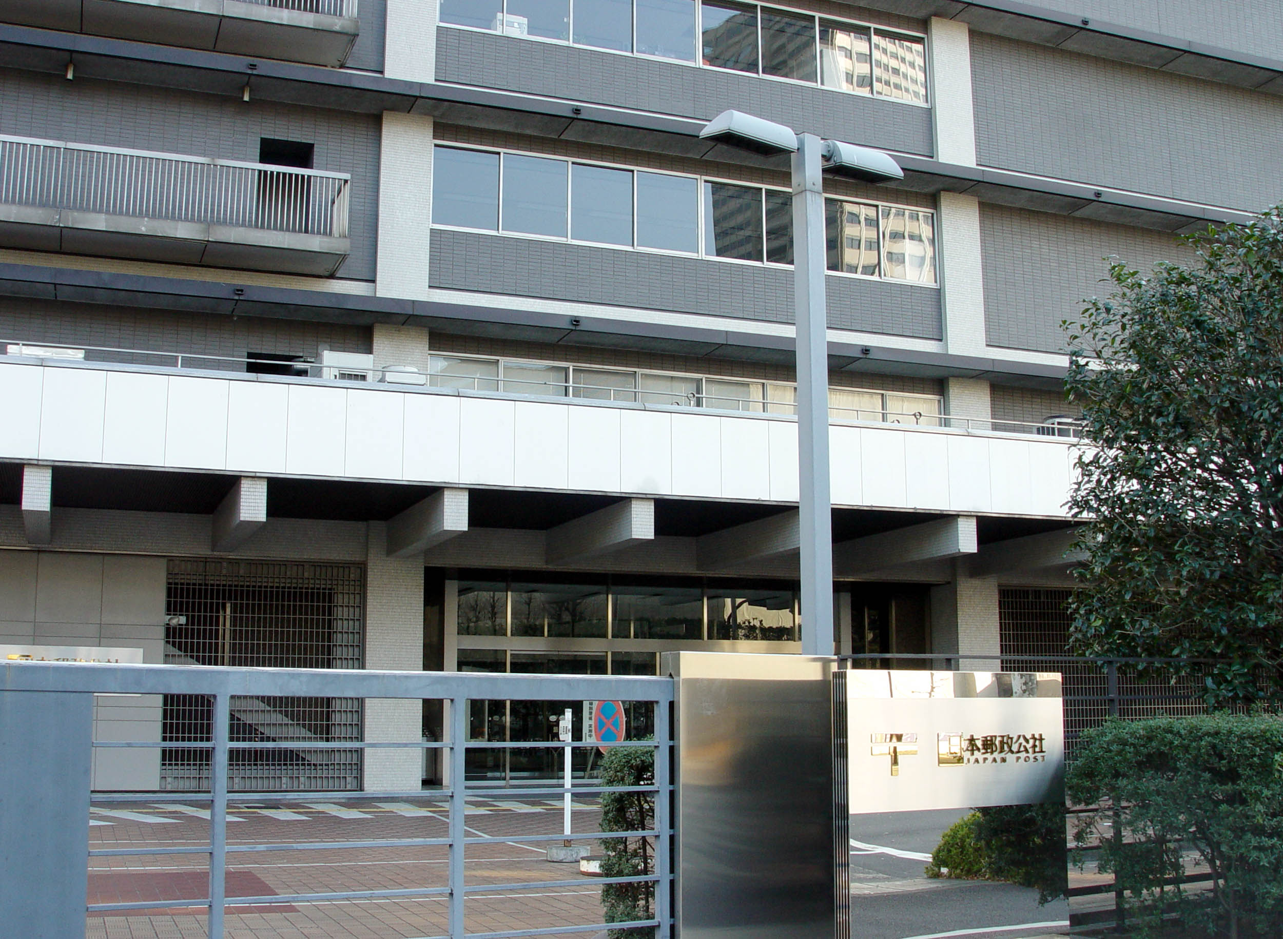 Public office building of Japan: Japanese Postal Service 庁舎： 日本郵政公社